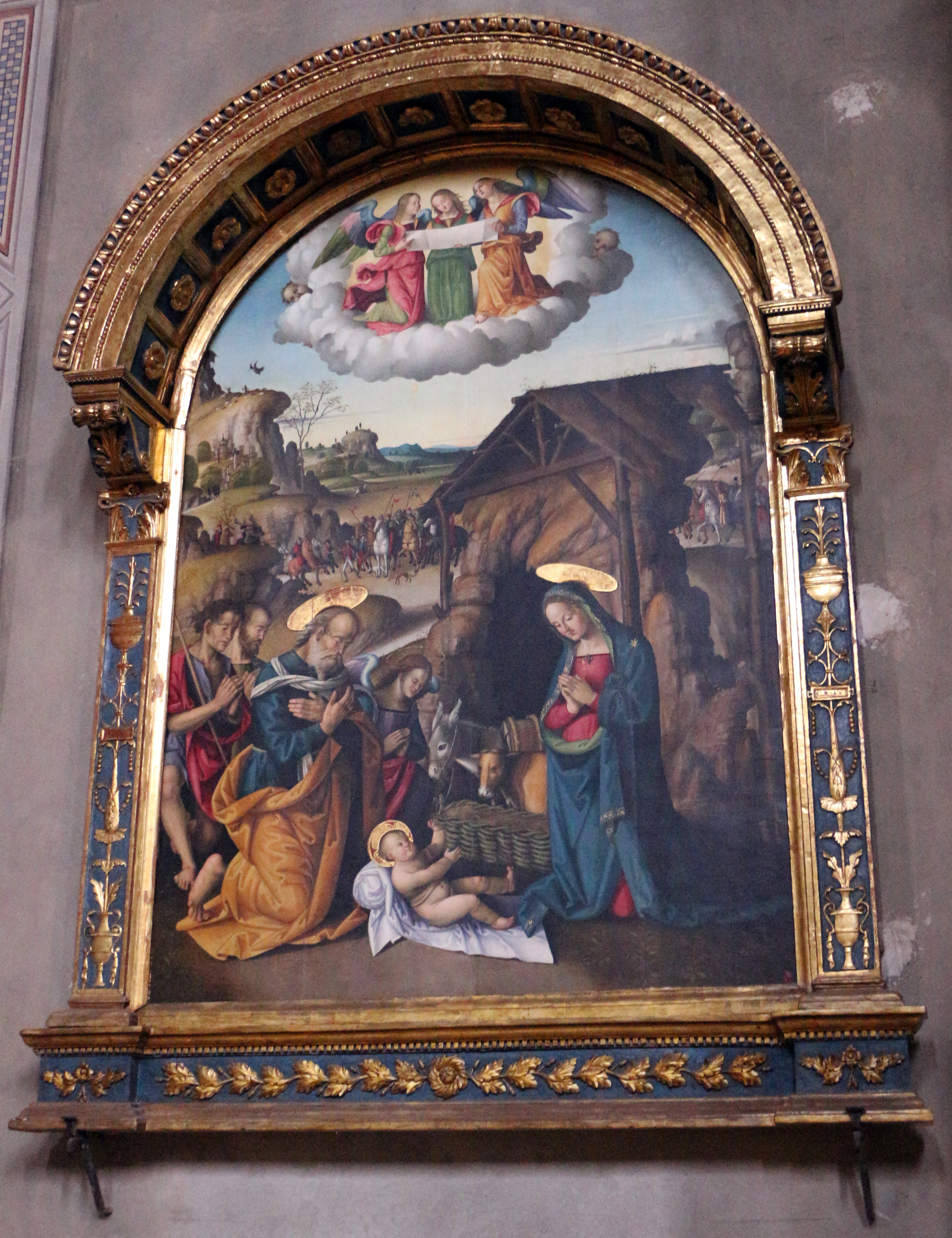 Duomo (Gubbio) - Interior